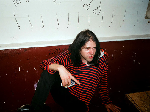 Ariel Pink backstage in 2010